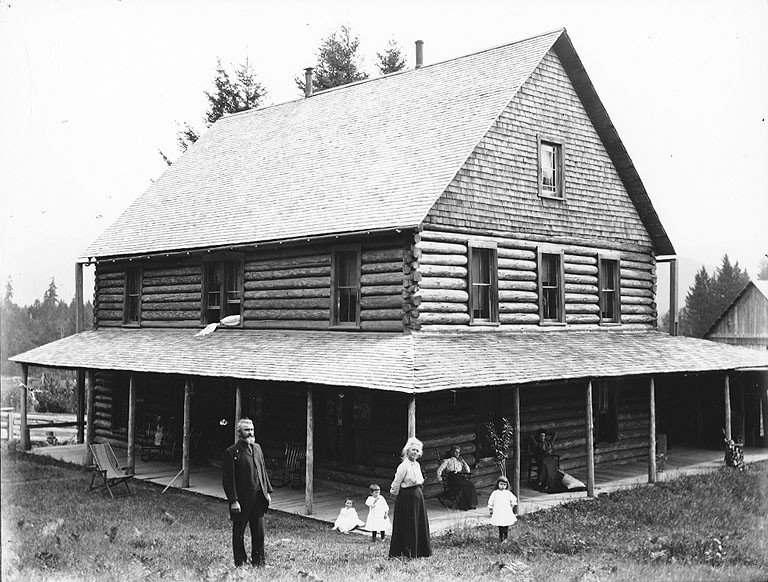 Shows two storey log house with shingle roof and large porch, family group with three women, one man and three small children in front . On sleeve of negative: Two storey log house, shingle roof Subjects (LCTGM): Homesteading--Washington (State); Dwellings--Washington (State); Families--Washington (State); Log cabins--Washington (State); Group portraits